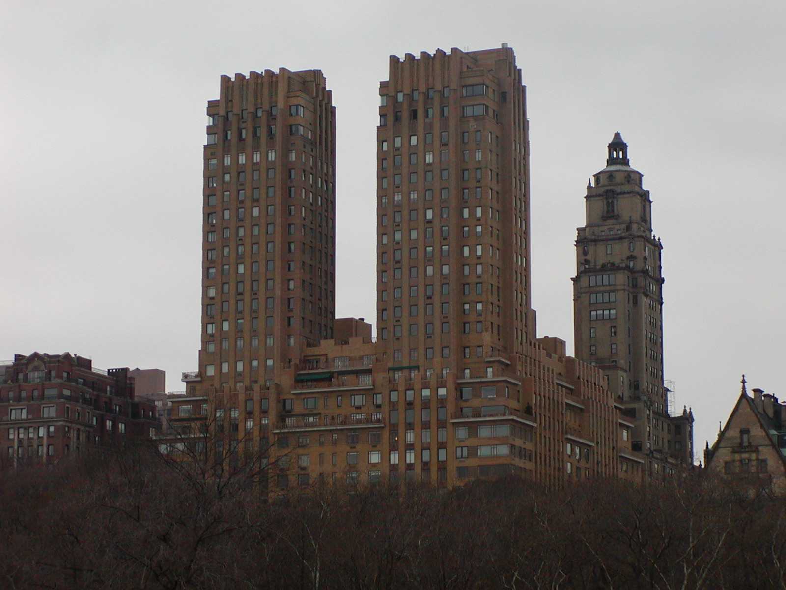 Looking west at The Majestic housing cooperative at 115 Central Park West in Manhattan in New York City.